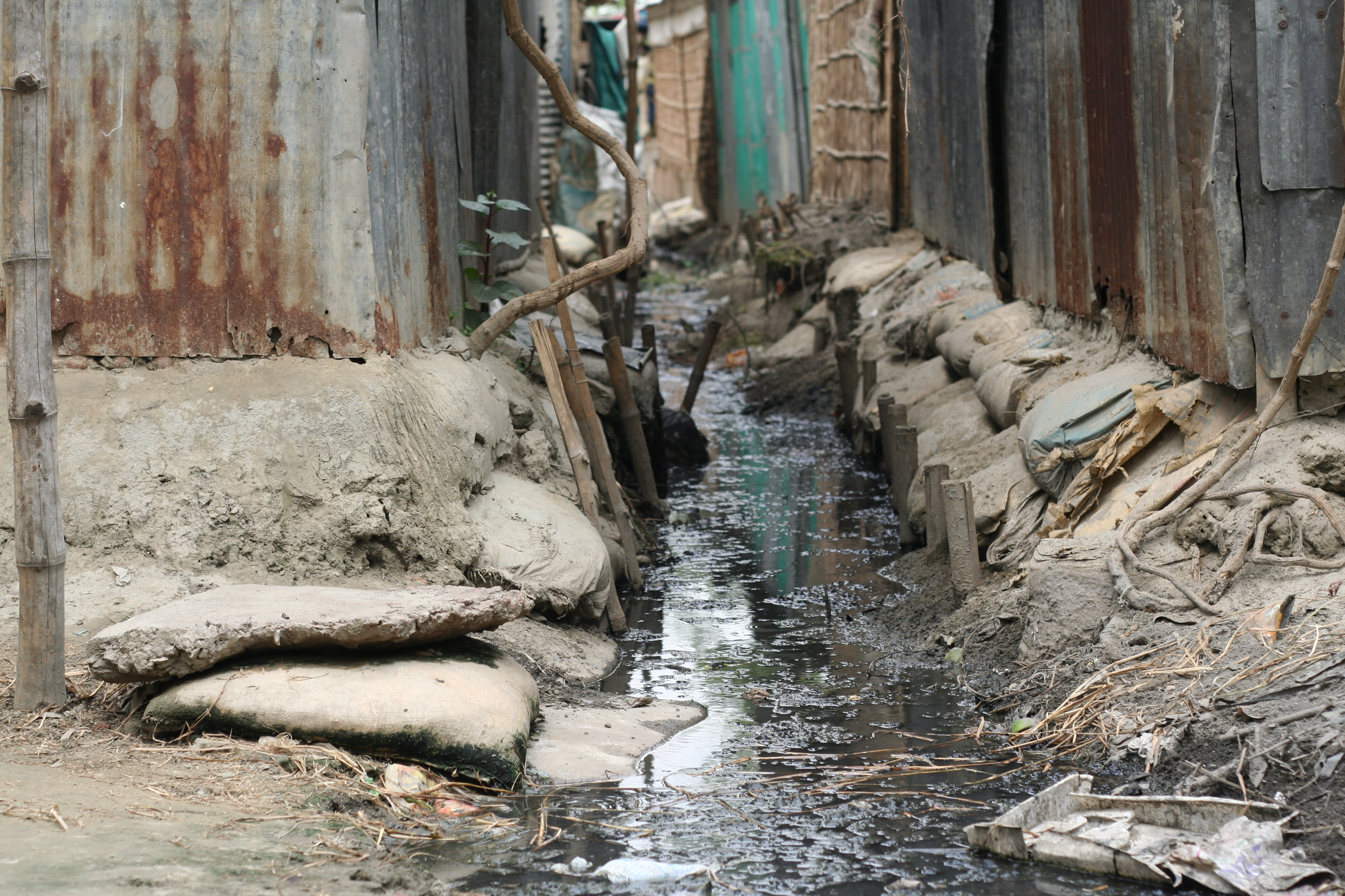 Photo by: Ashley Wheaton April 2009 Lacking a proper drainage system, residents of Kalibari community have improvised with wood and sandbags.